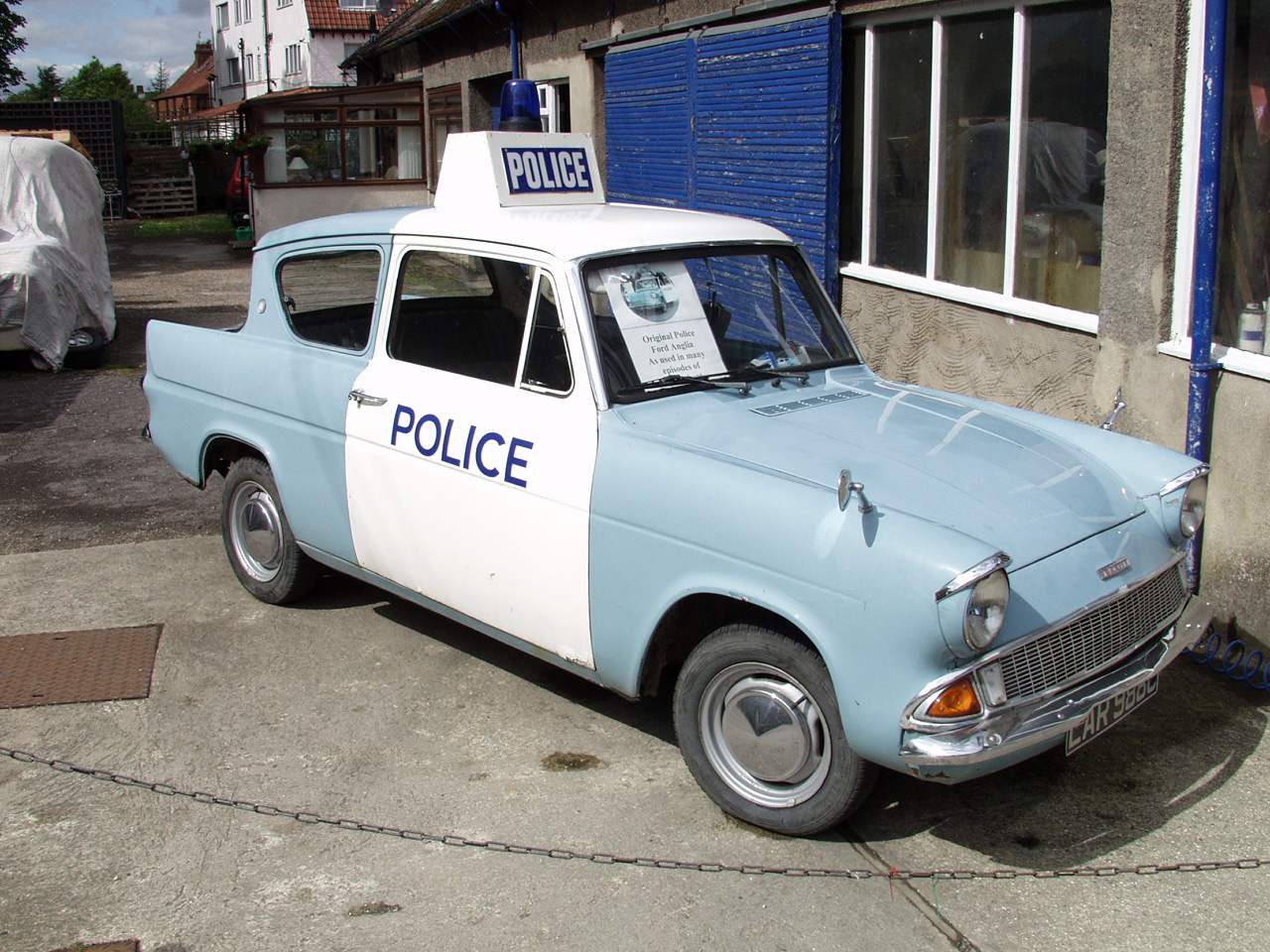 Ford Anglia used on the set of "Heartbeat" TV series filmed in Goathland , North Yorkshire